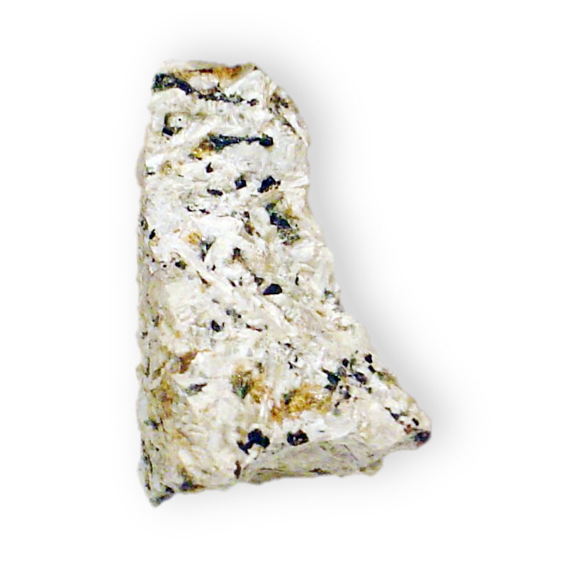 These mineral images are free to use how you wish.